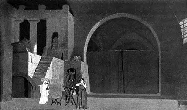 Nikolai Rimsky-Korsakov - Servilia - act 4, In Locusta, stage setting by Peter Lambin, 1902